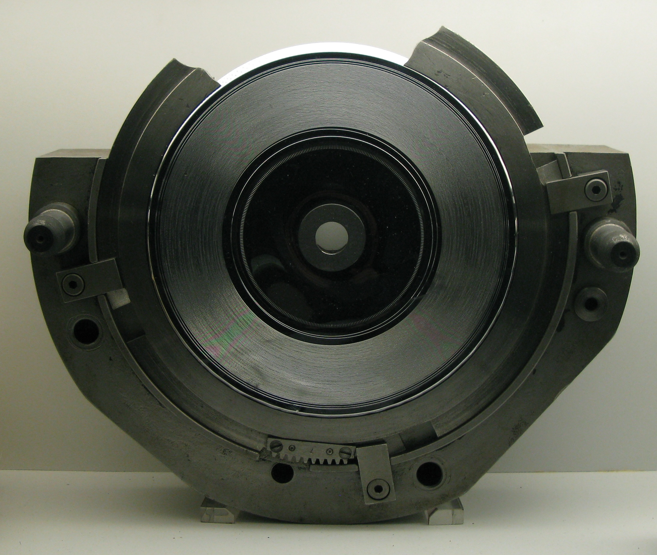 Photo of a record press